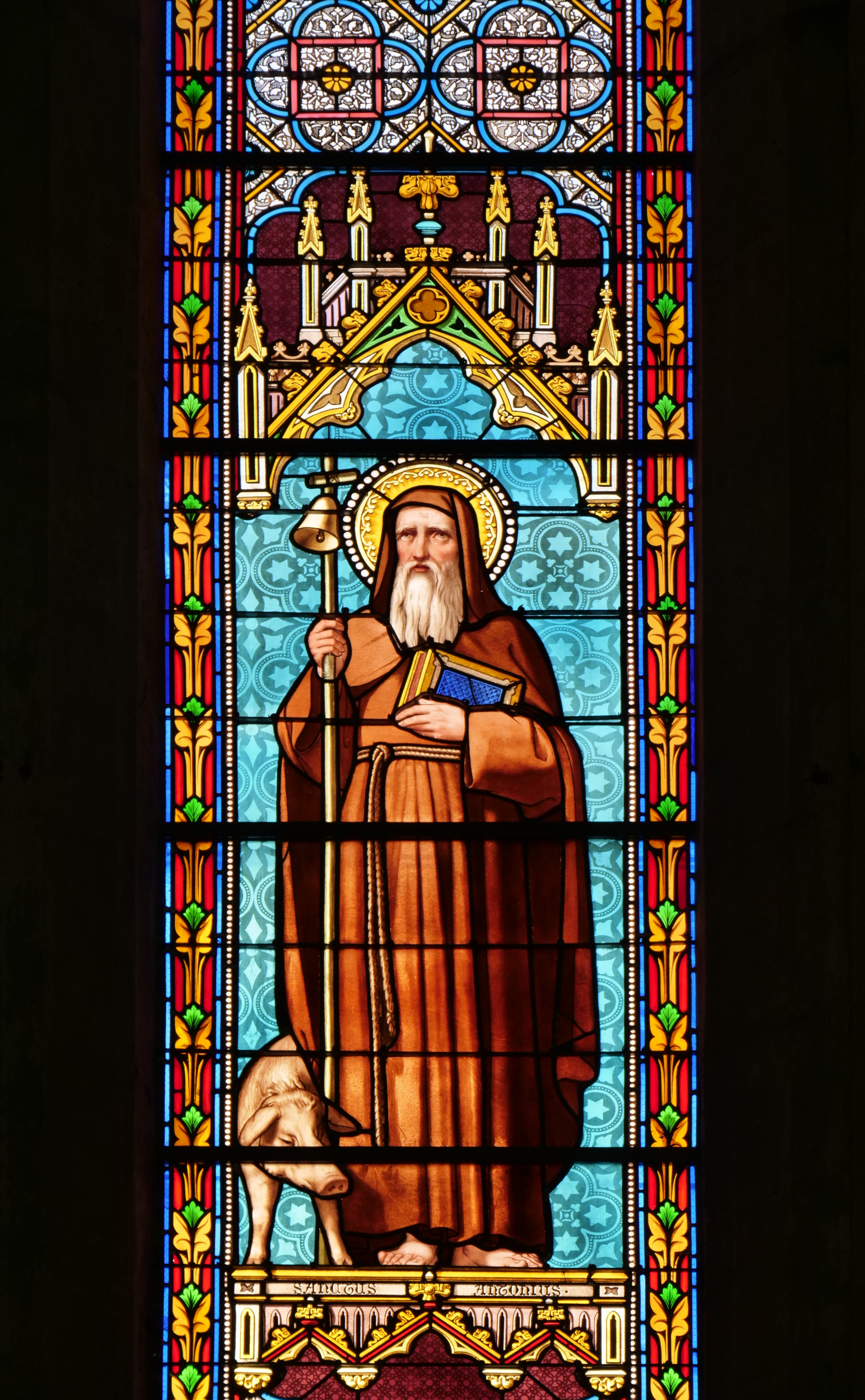 Stained glass windows of Saint Anthony the Great, Saint-Antoine l'Abbaye, made by Louis-Victor Gesta.